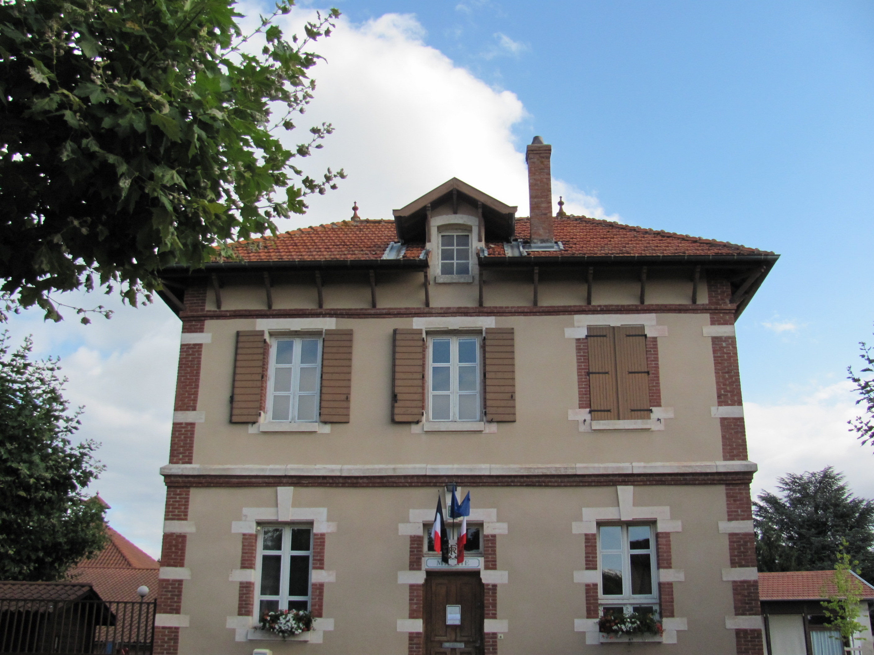 Town hall of Tramoyes (Ain).